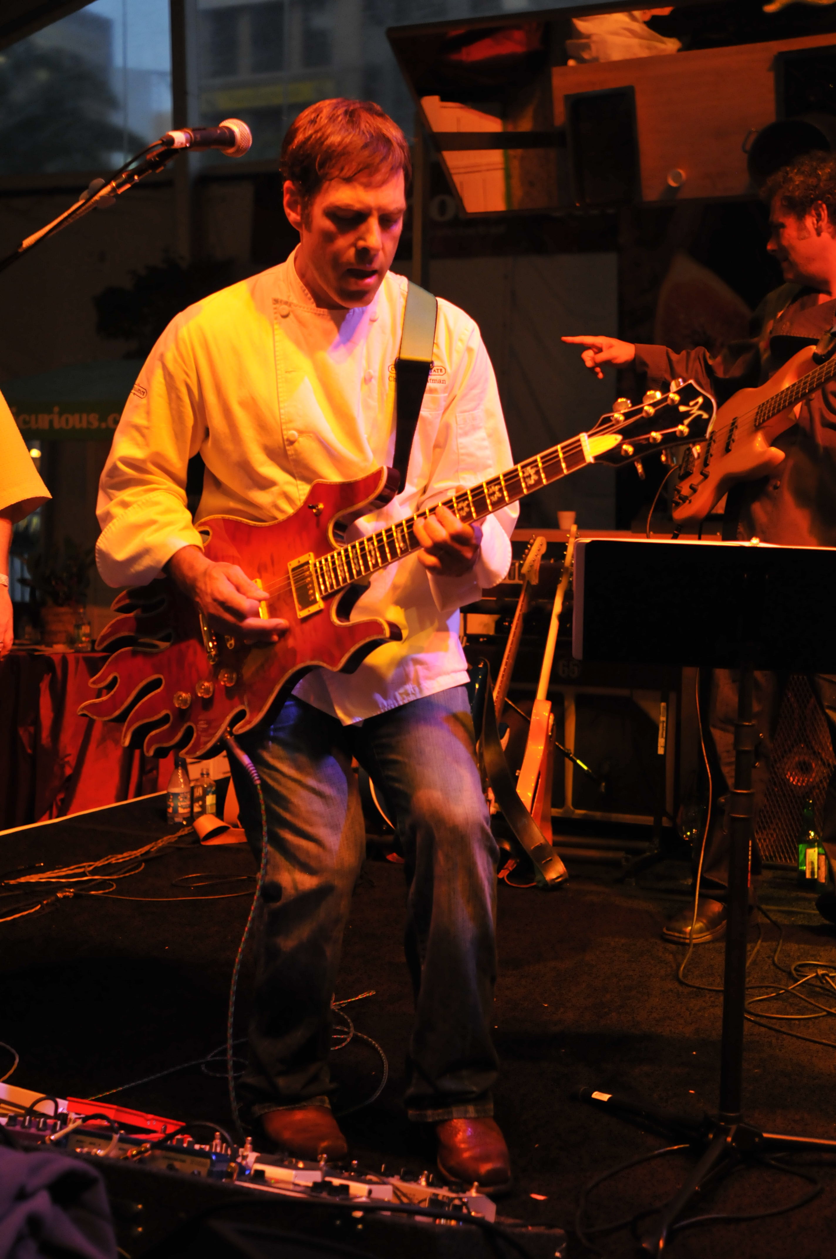 Chef Joey Altman Jams at Urban BBQ